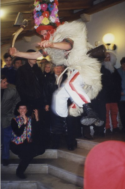 Bell ringer of Veli Brgud